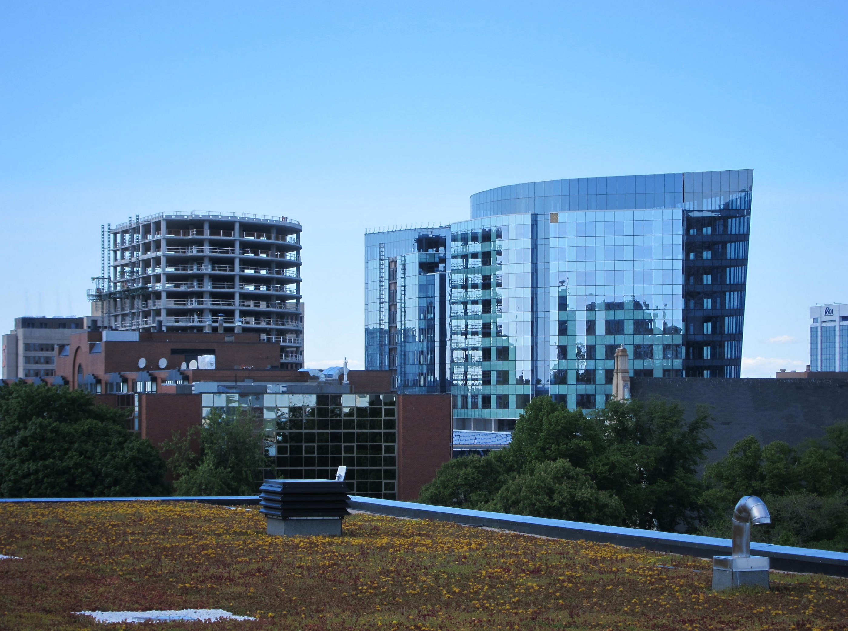 The Nova Centre under construction in Halifax, Nova Scotia. Photo taken from the roof of the Halifax Central Library.